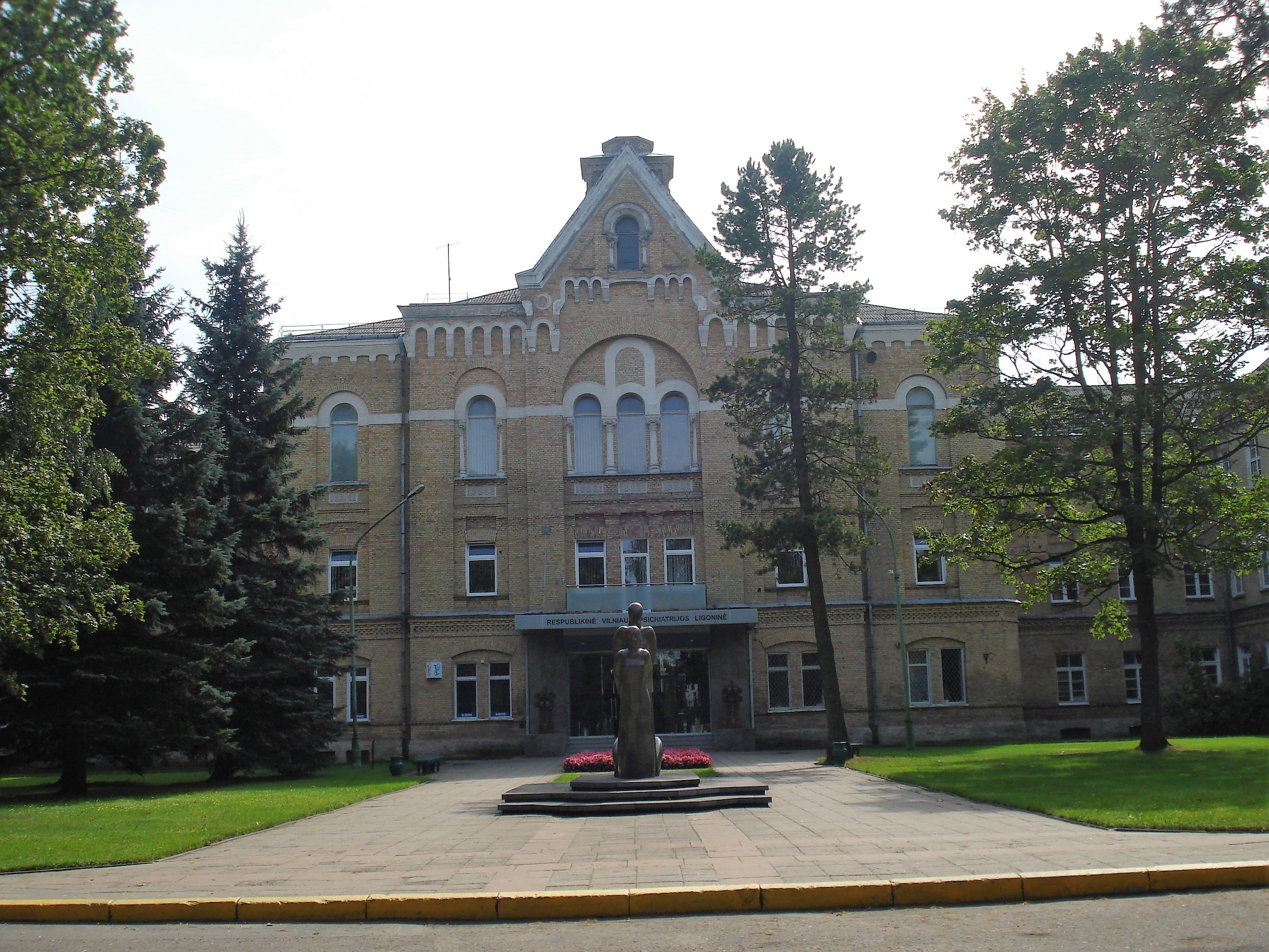 The Republican Vilnius Psychiatric Hospital in Naujoji Vilnia (Parko g. 15), is one of the largest health facilities in Lithuania; build in 1902, official opening on 21 May 1903